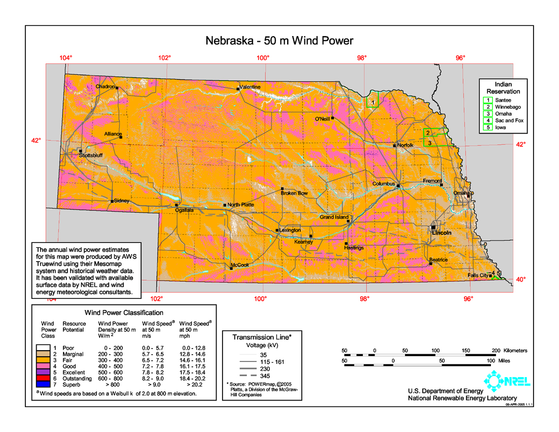 Average annual wind power distribution for Nebraska, 50m height above ground, also showing location of existing electrical transmission lines